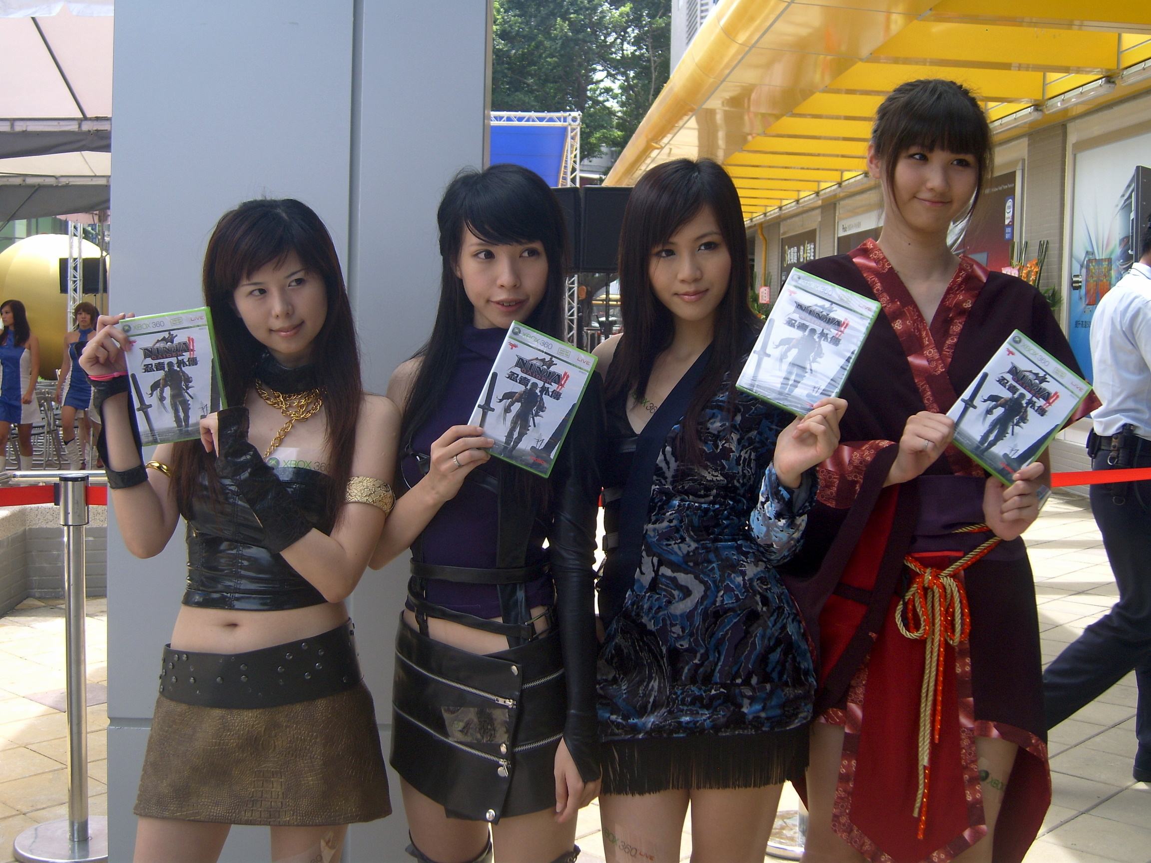 Launch of Guang Hua Digital Plaza: Cosers from Microsoft Games Ninja Gaiden 2.